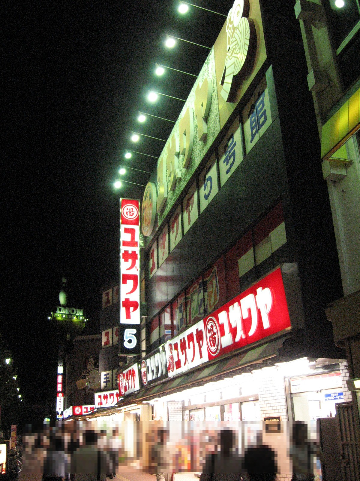 Yuzawaya Kamata 5th Buildings.